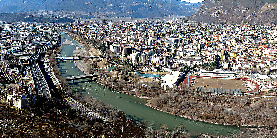 Panorama picture of the city of bolzano